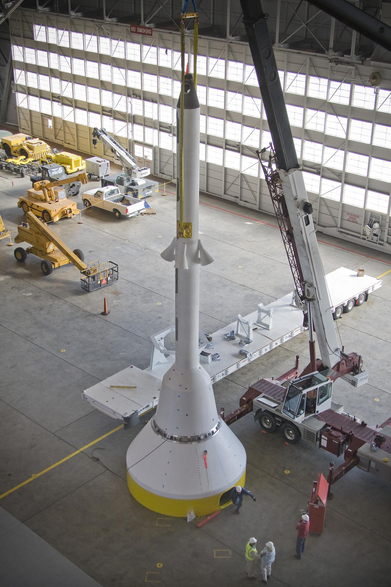 Overhead view of CM/LAS (Crew Module/Launch Abort System) stack of Ares I-X rocket. NASA is a step closer to the first flight test of its back-to-the-moon rocket design with the completion of key Ares I-X rocket hardware elements at NASA's Langley Research Center, in Hampton, Virginia.